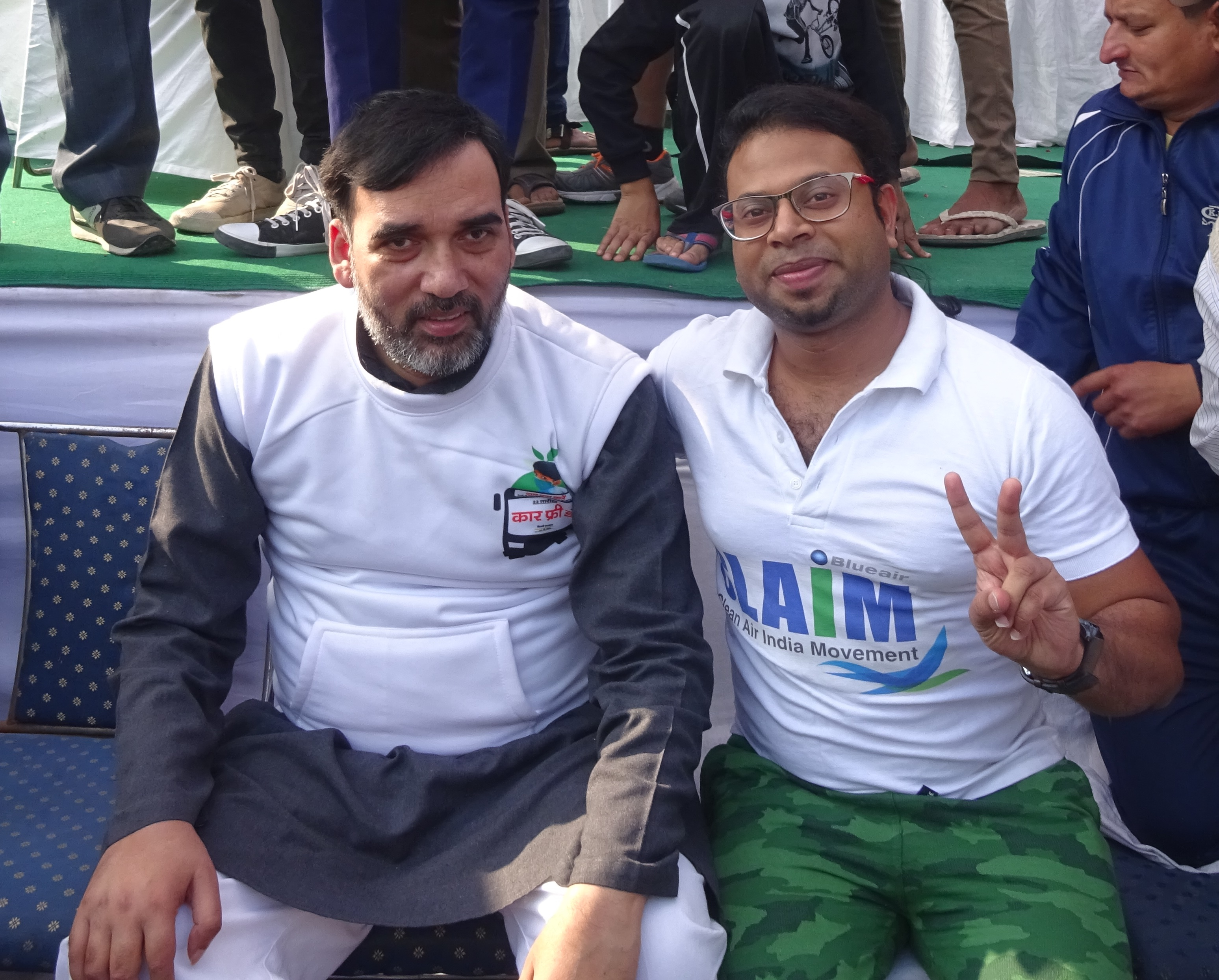 In unison with the Transport and Rural Development Minister of Delhi, Mr. Gopal Rai, and Mr Vijay Kannan supports Car Free Day on 22nd Nov 2015 in district Dwarka, New Delhi..